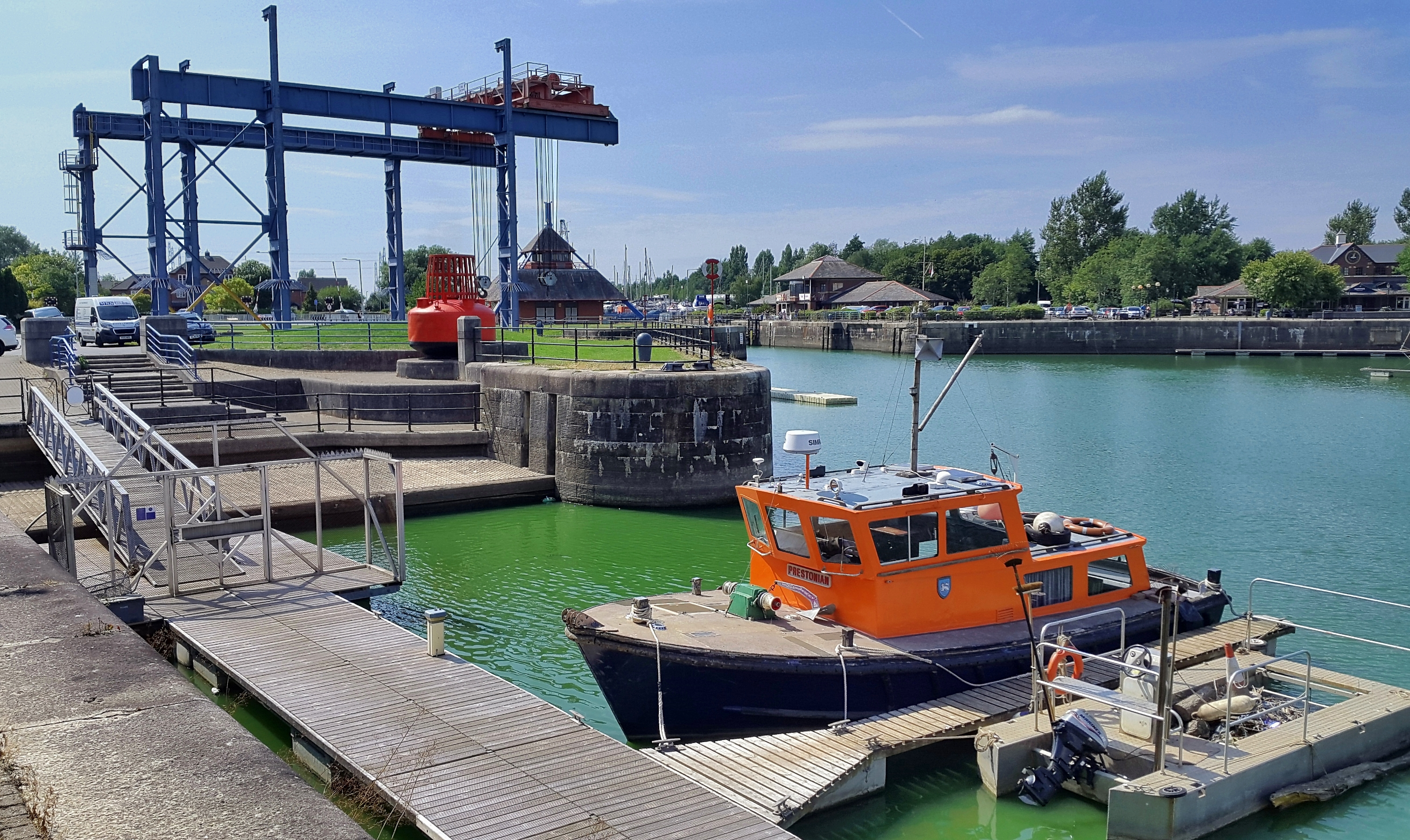 The Albert Edward Basin in Preston, from the southern side of the docks looking northwest. In the background is a preserved loading crane, and in front of this a navigation buoy. Lancashire UK.